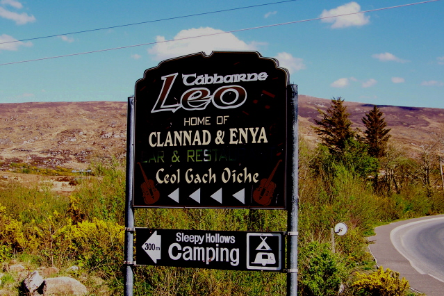 Crolly - Leo's Tavern Sign The road to the right is R259, just south of Crolly off N56.